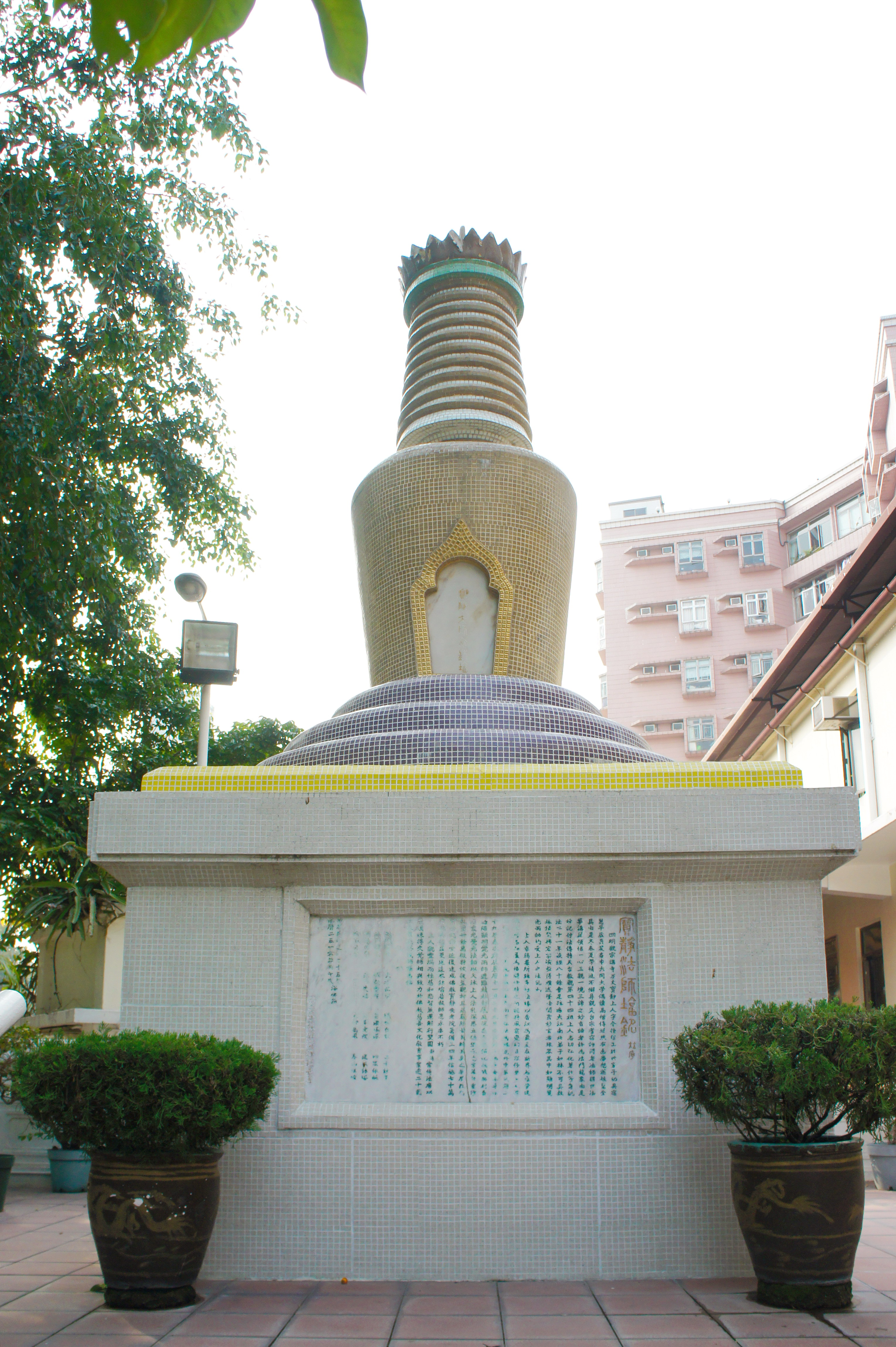 A stupa near the front entrance, Hong Kong Kun Chung Temple, Hong Kong.